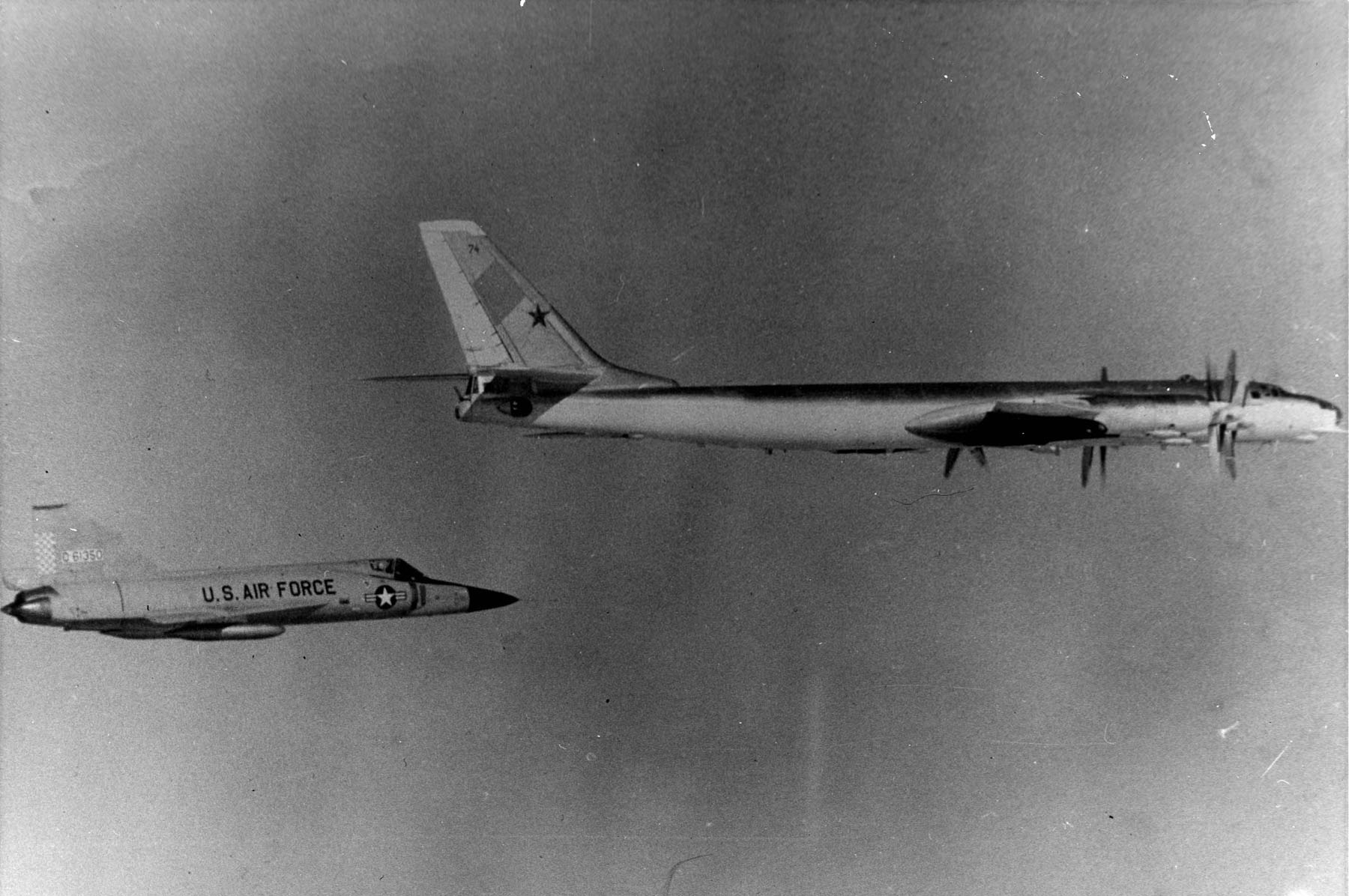 A U.S. Air Force Convair F-102A-75-CO Delta Dagger (s/n 56-1350) intercepting a Soviet Tupolev Tu-95 Bear bomber.